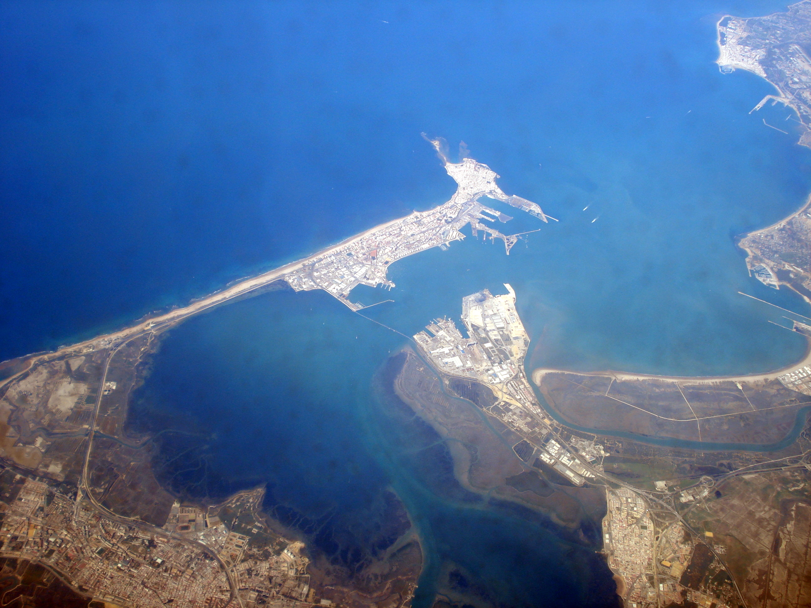 Aerial view of the bay of Cádiz, Spain